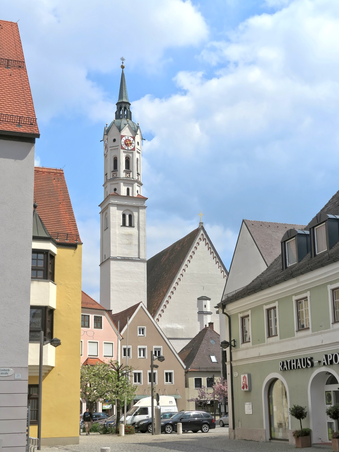 Prish Church St. Jakob